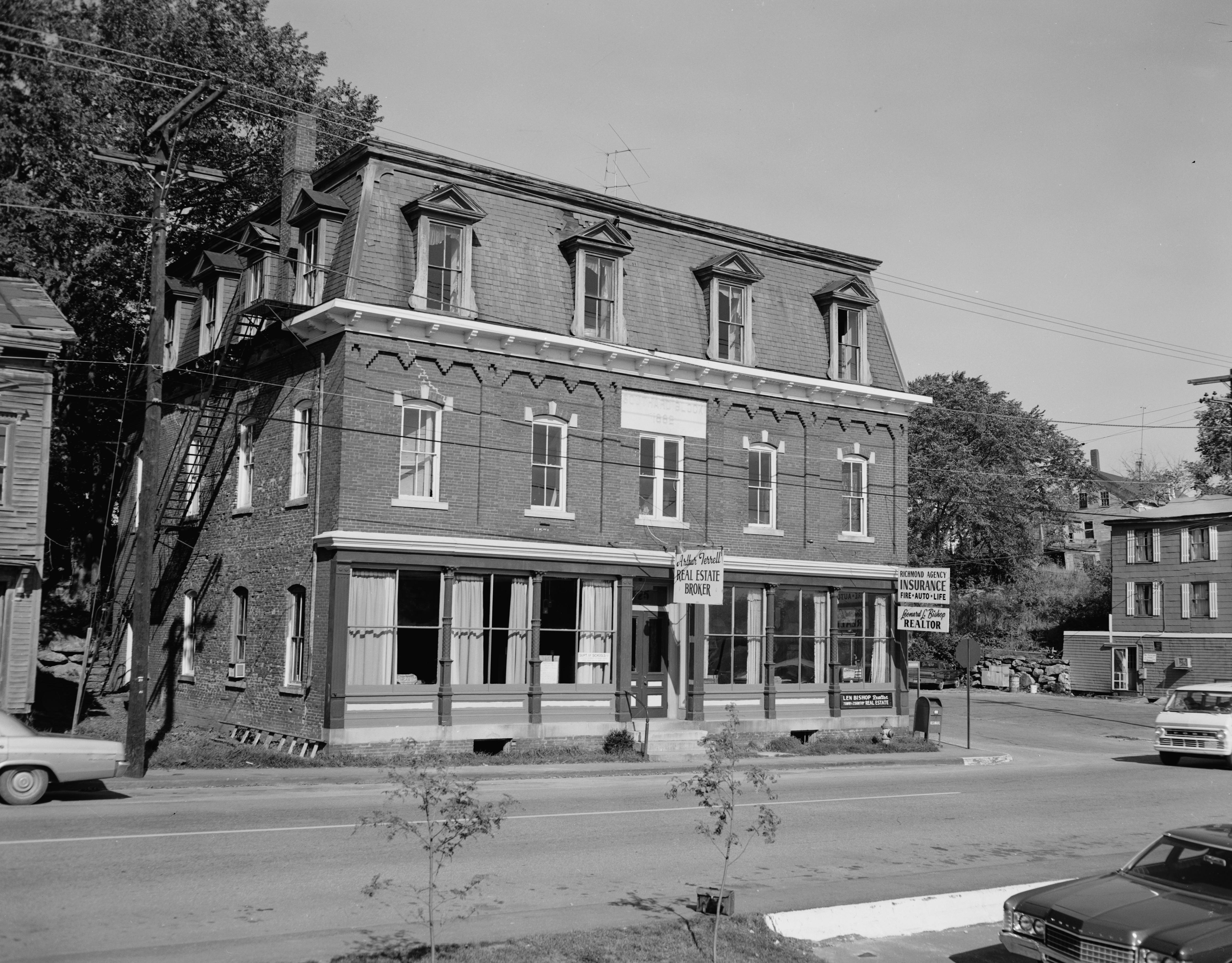 Front of the Southard Block, located at 25 Front Street in Richmond, a town in Sagadahoc County, Maine, United States. Built in 1882, it is listed on the National Register of Historic Places.